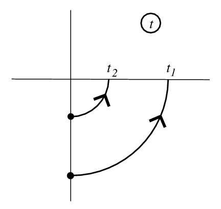 wick rotation